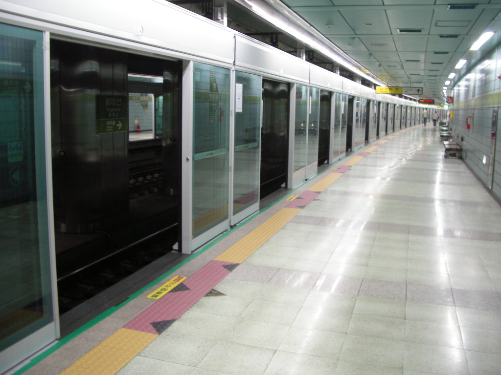 The platforms at Yongmasan Station